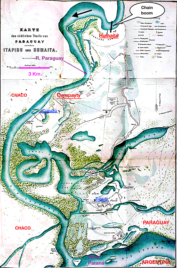 Map of the small area of southeastern Paraguay where the Allies were bogged down for two and a half years.